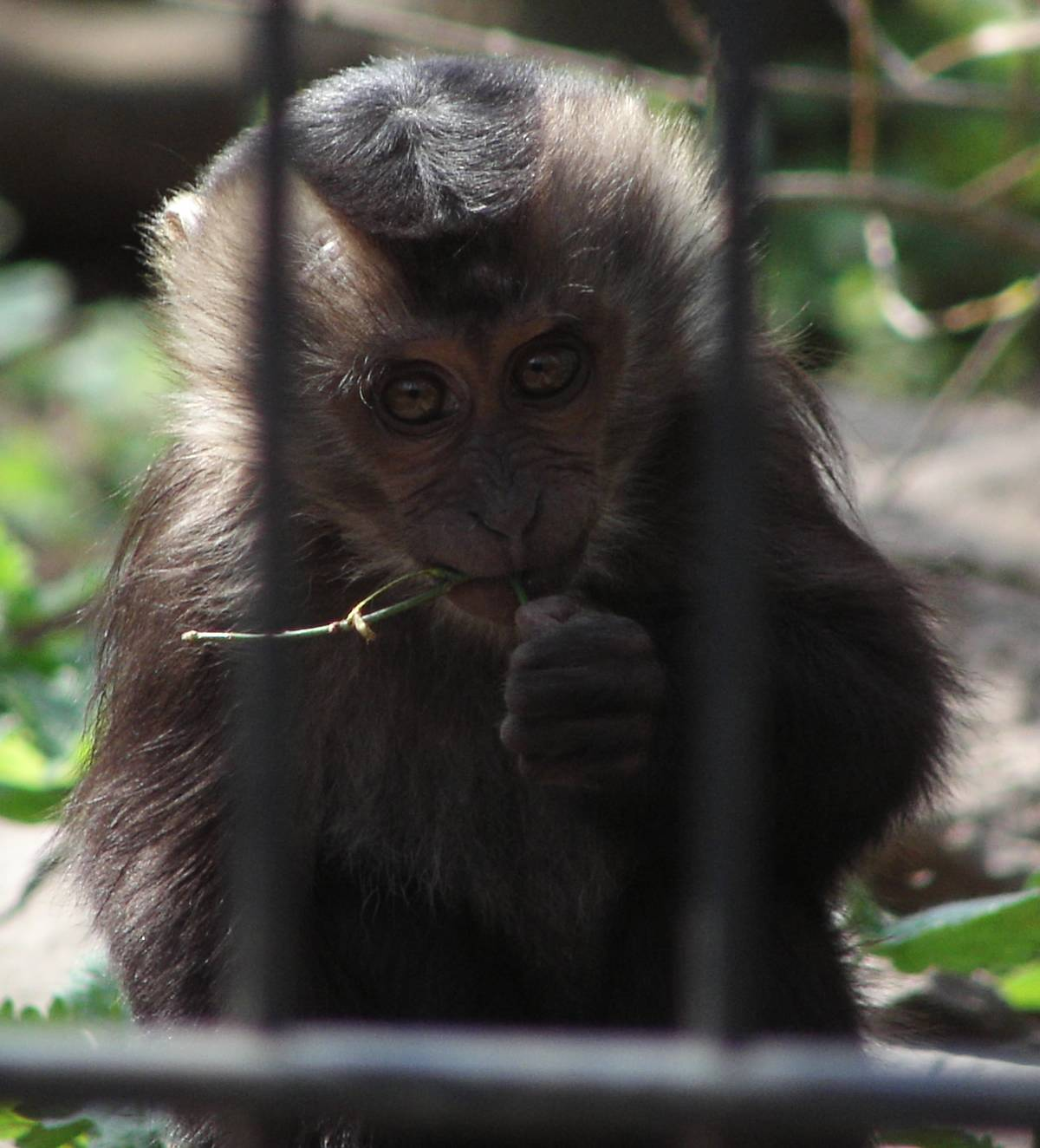 Young Macaca silenus in Cologne Zoo, Germany.